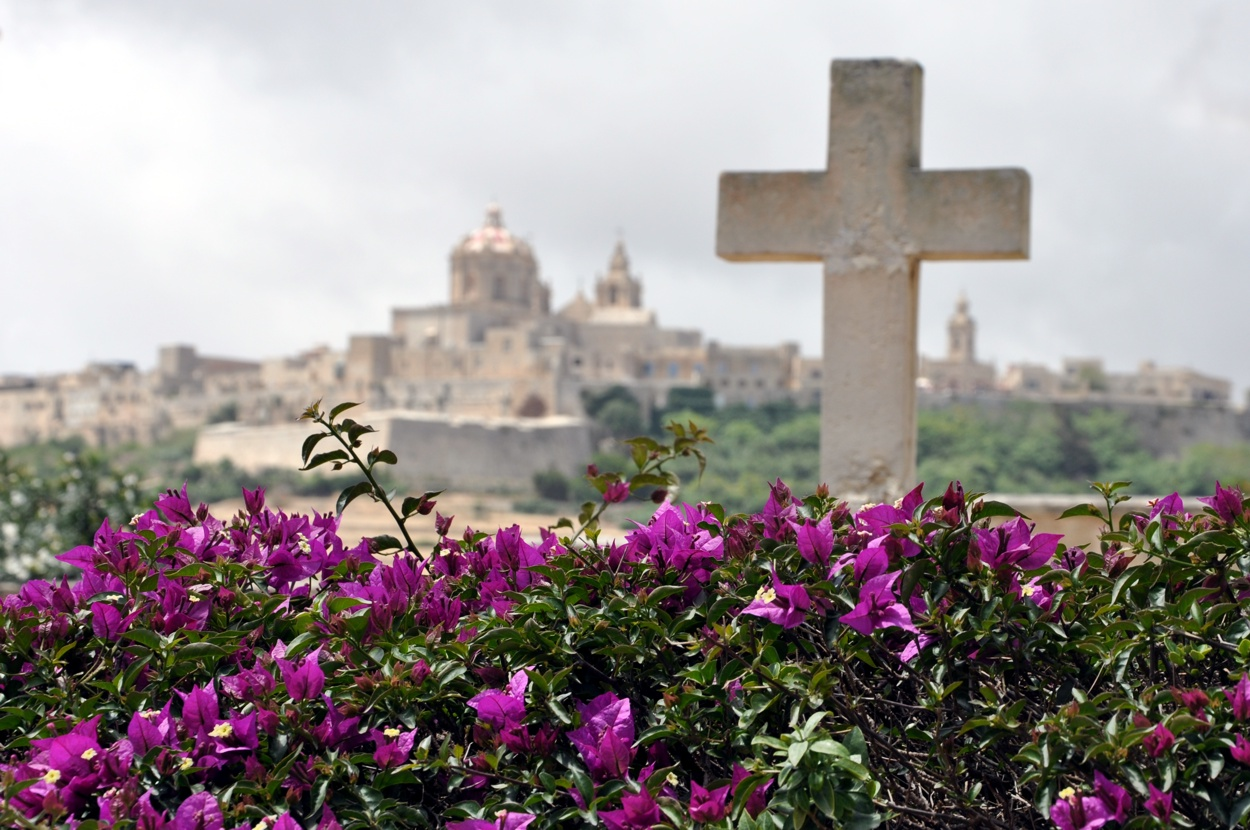 Mtarfa Commonwealth Military Cemetery near Ta' Qali.